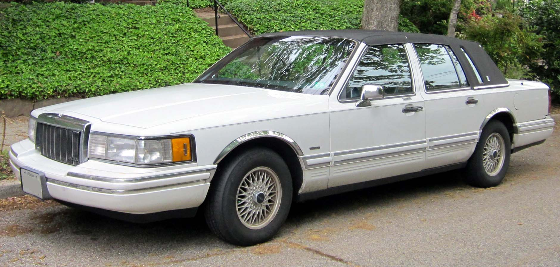 1990-1992 Lincoln Town Car photographed in Washington, D.C., USA.